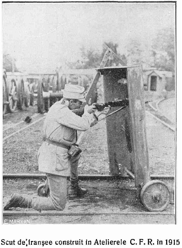 Mobile personnel shield used in trench warfare, built by the CFR factory.